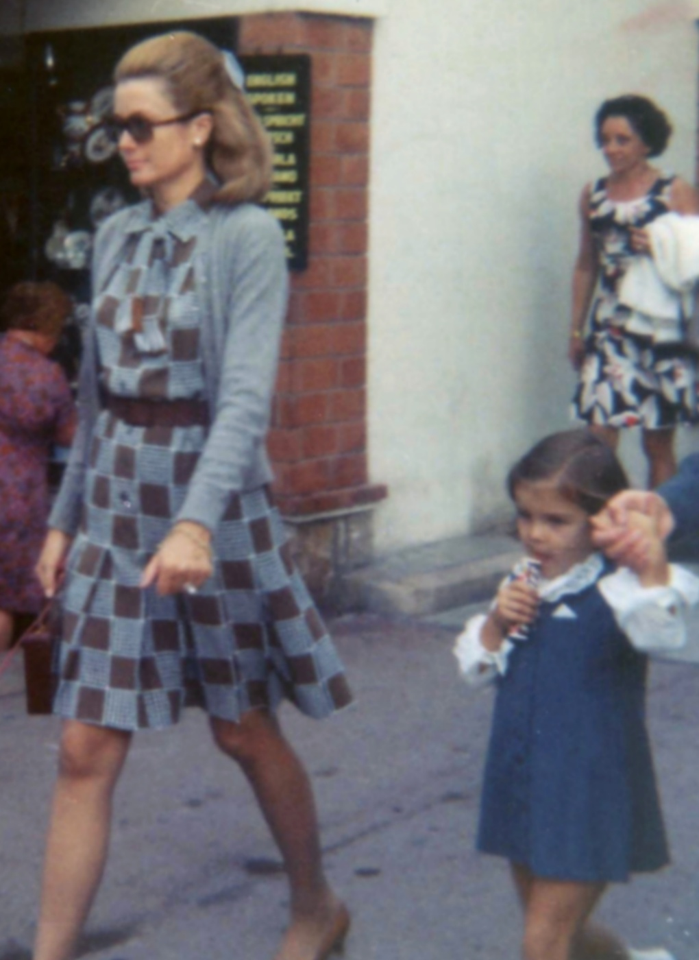 Princesse Grace with daughter, Monaco 1969